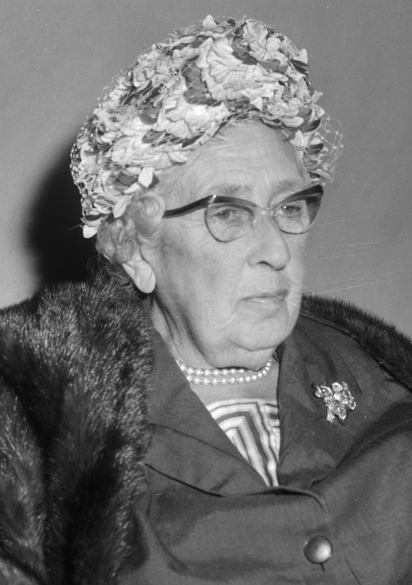 Photograph of the English novelist Agatha Christie (1890–1976), taken at Schiphol Airport, Amsterdam